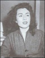 Delkash is Iranian female vocalist.